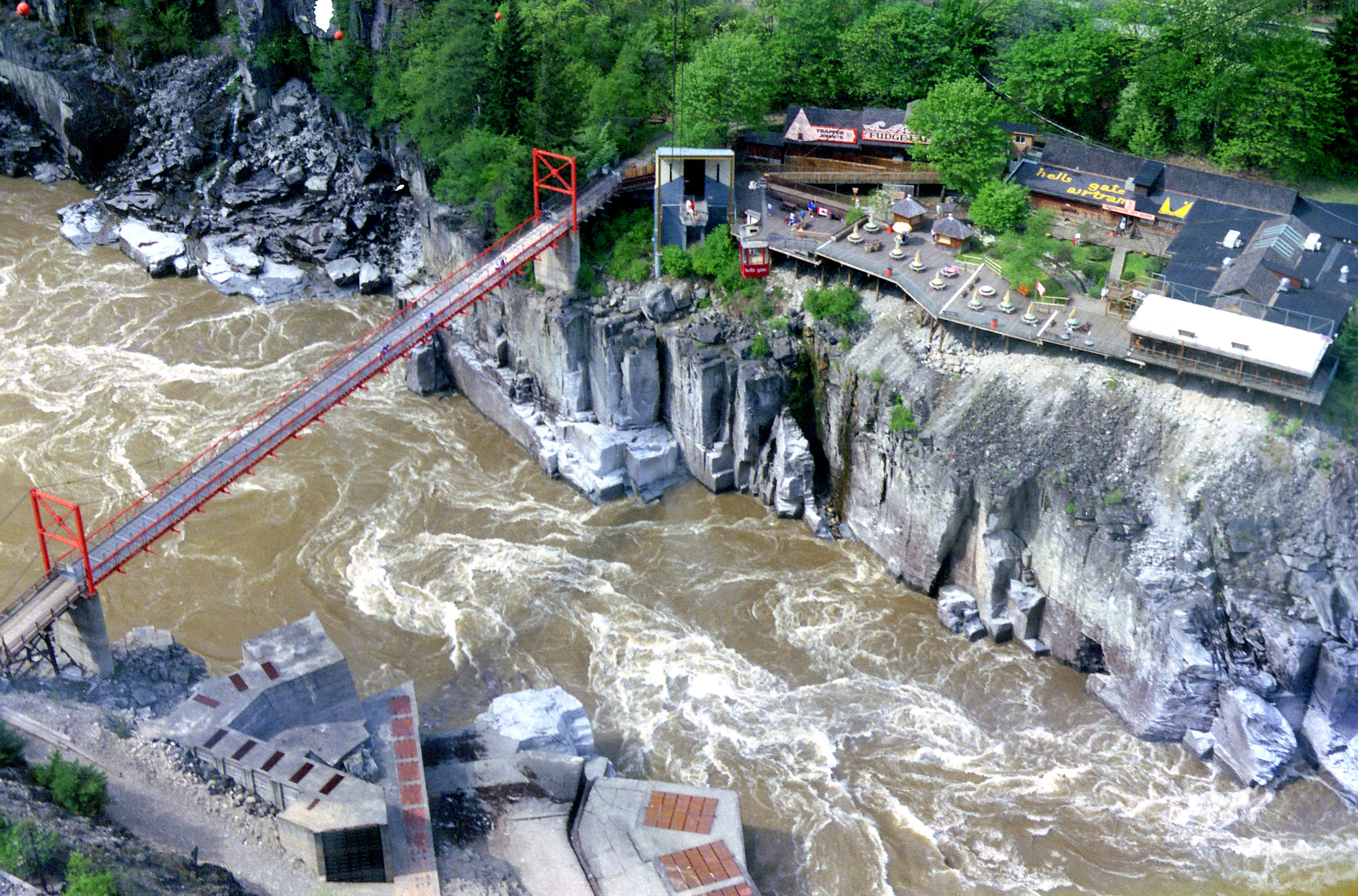 Tram view on Hell's Gate, near Hope, British Columbia, Canada